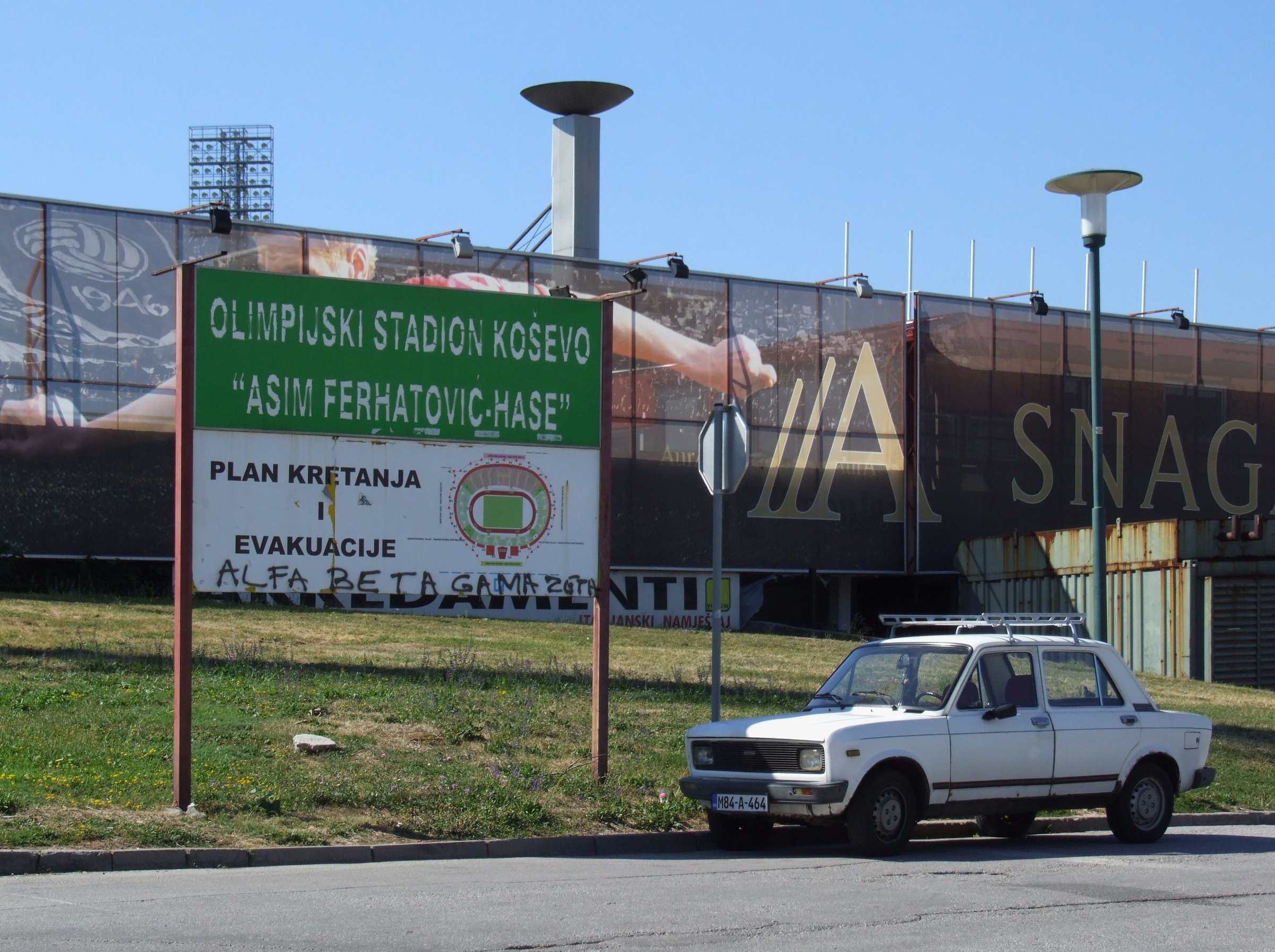 Zastava 128 near Koševo stadium, Sarajevo